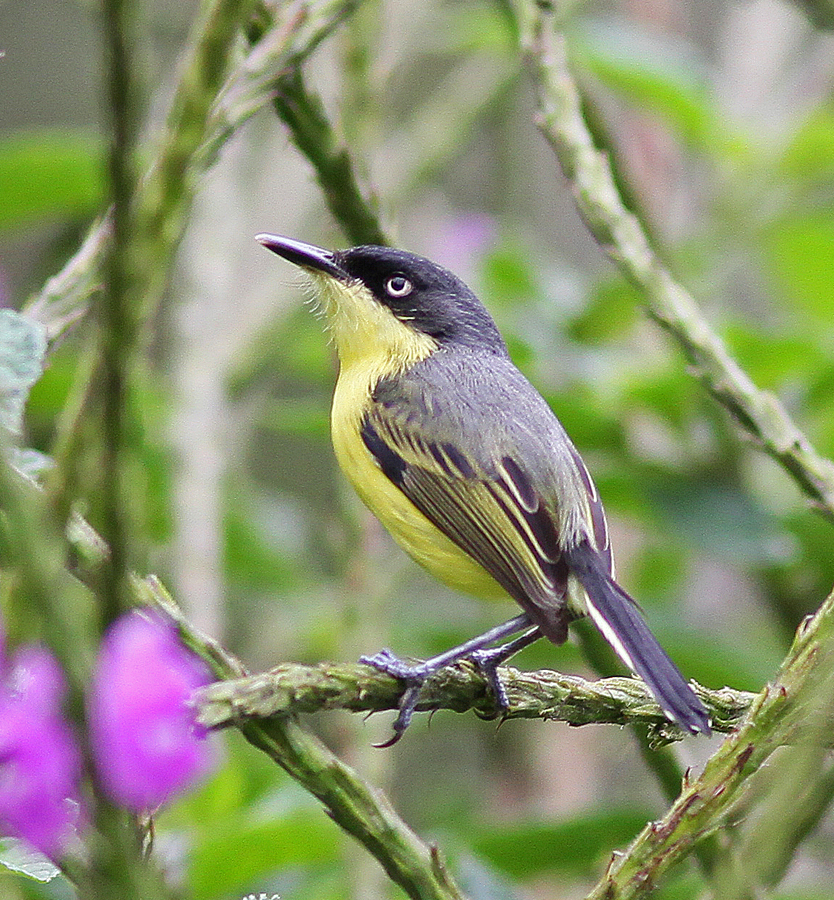 Common Today-Flycatcher photo taken at Rancho Naturalista, Costa Rica.